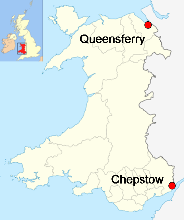 The coast line of Wales, showing start & finish of the Wales Coast PAth